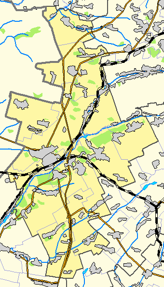 map of Krasnohradskyi raion, Kharkivska oblast, Ukraine